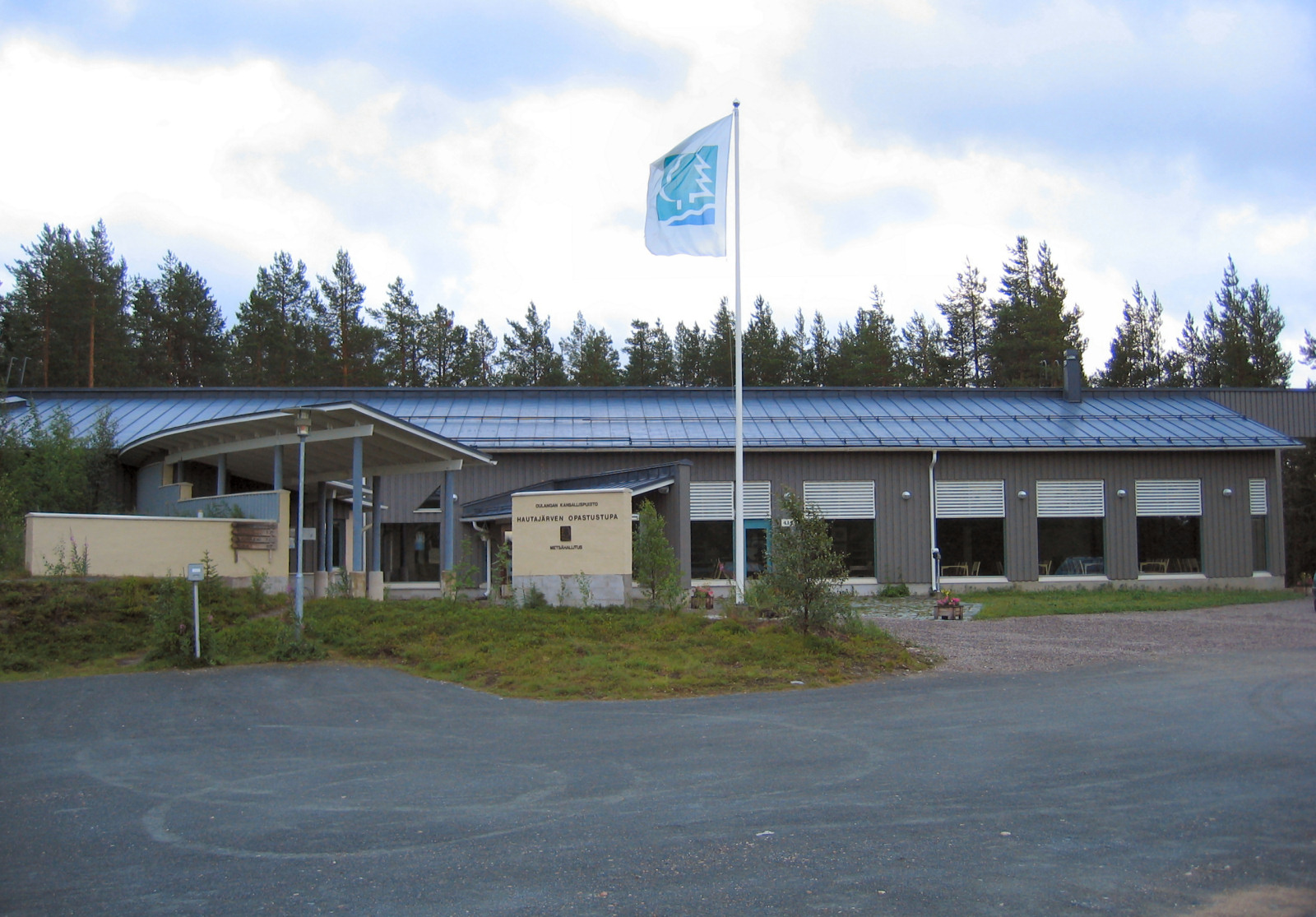 Picture of "Hautajärven luontotalo" (or "Hautajärven opastustupa", "Hautajärvi information center"), at Lapland of Finland, at the Oulanka National Park.